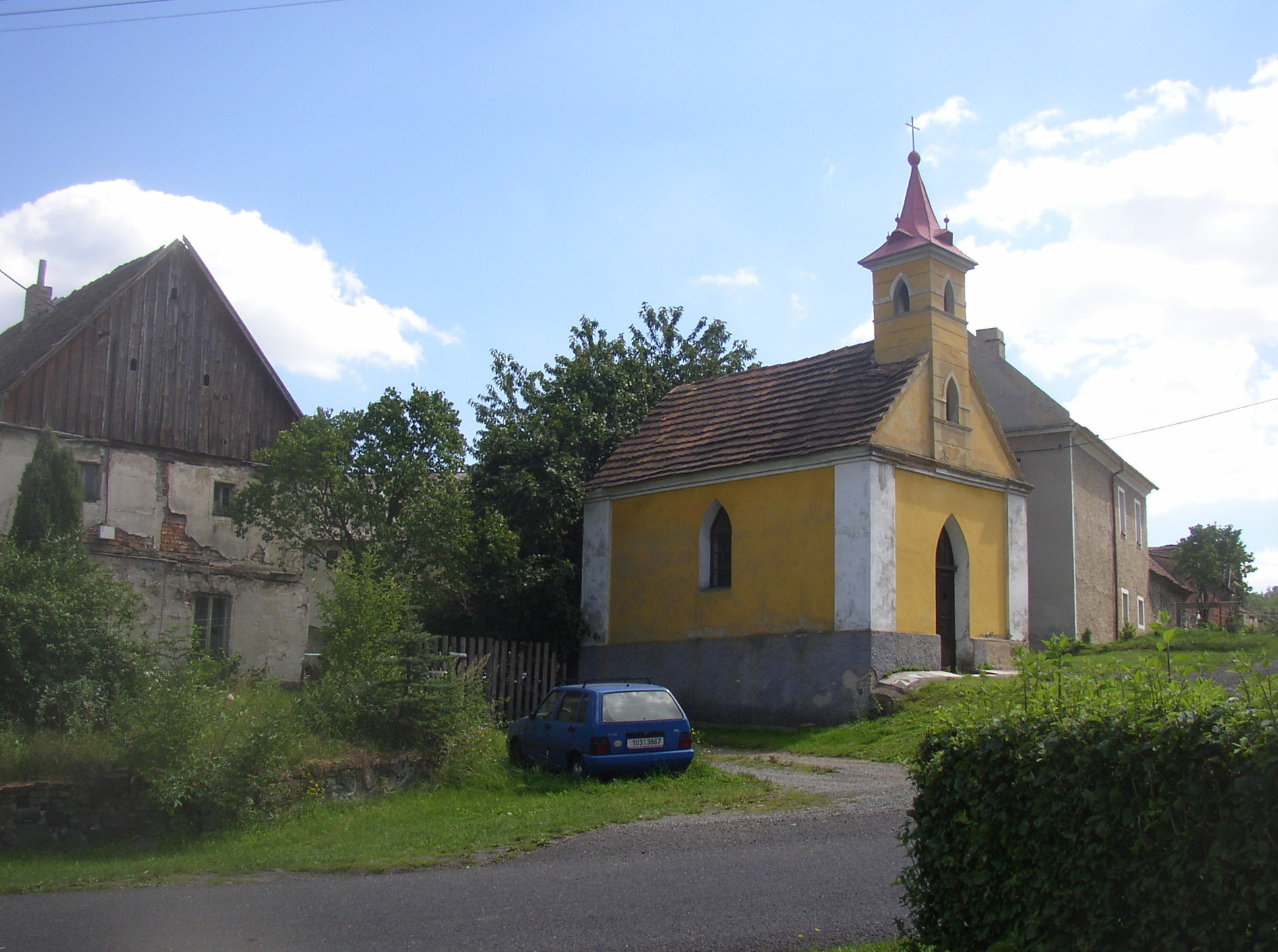 Gothic Revival chapel of SS John and Paul in Podlešín (a part of Stebno municipality, Ústí nad Labem District).